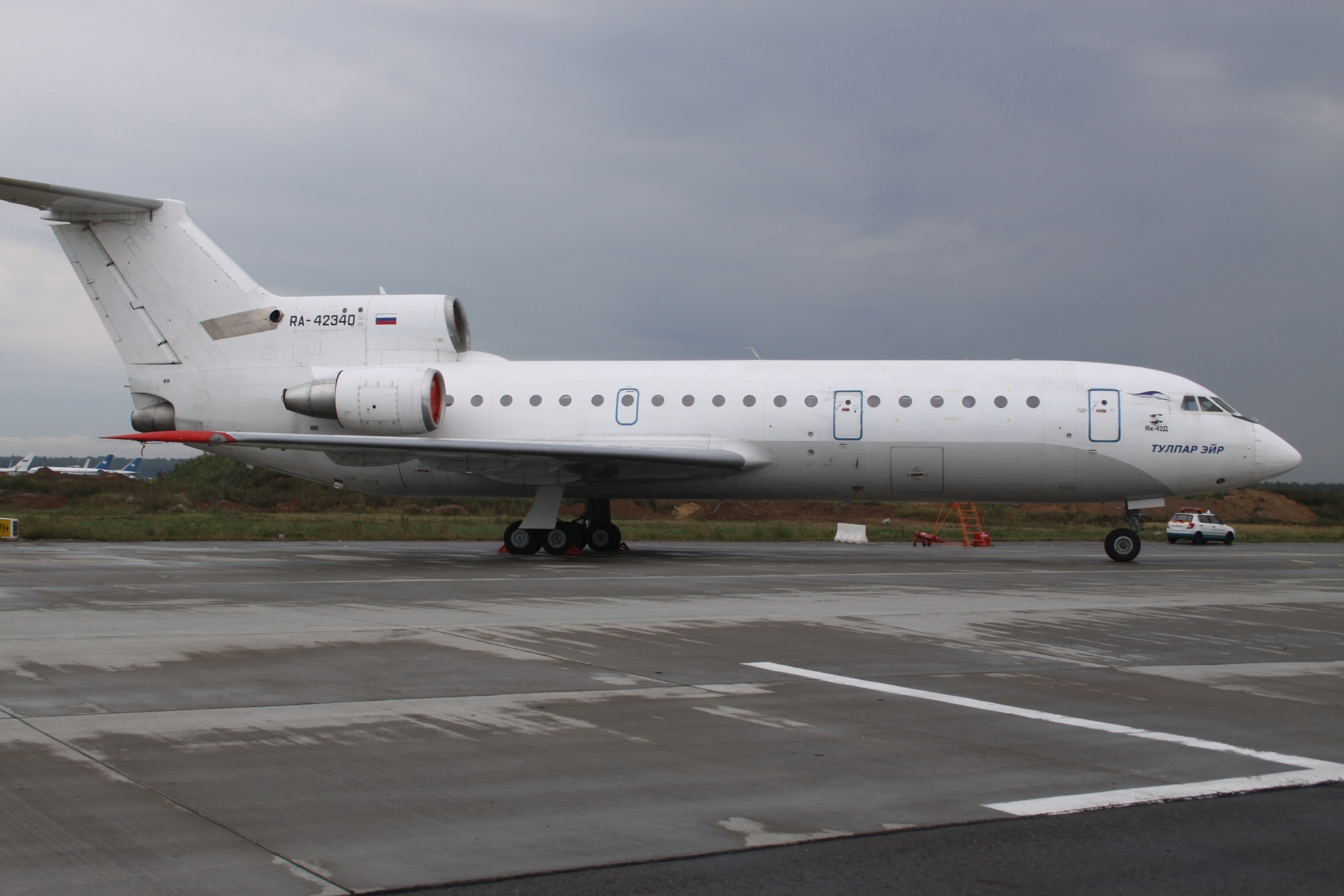 At Moscow Domodedovo